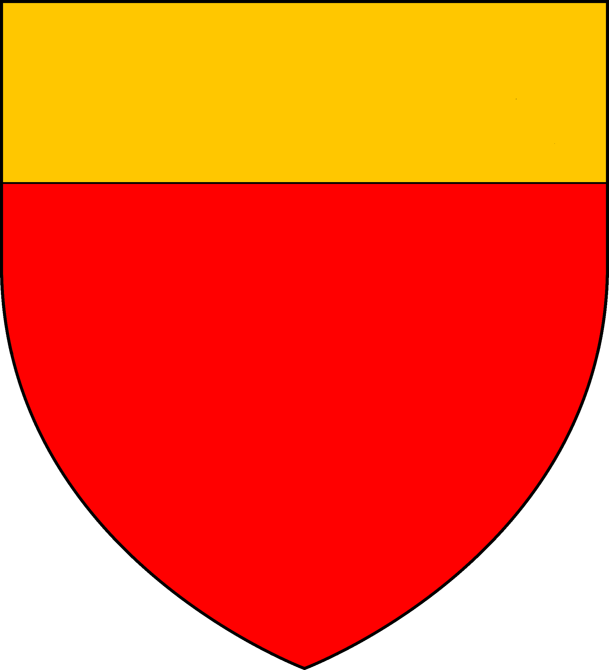 Escudo de Armas de la casa de Ventimiglia